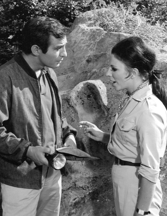 Photo of Ben Gazzara as Paul Bryan and guest star Joan Collins from the television program Run For Your Life.